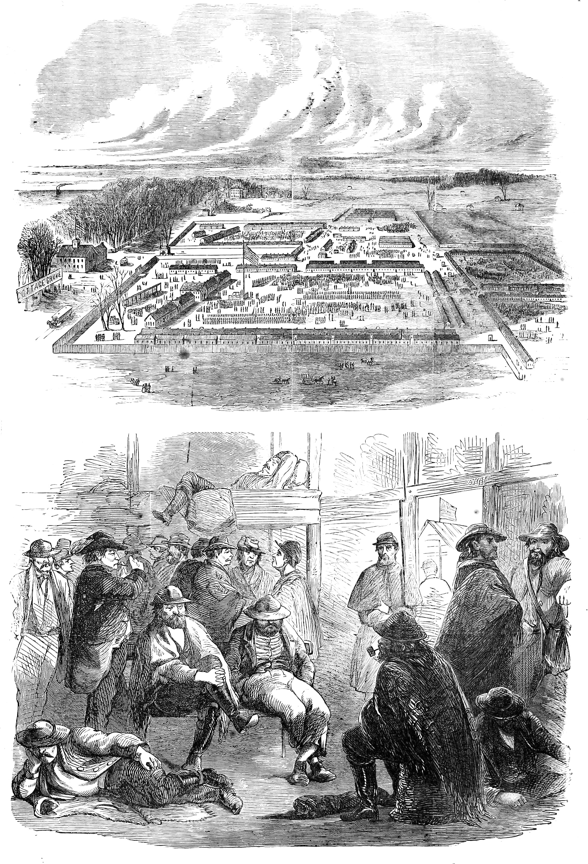 Original captions: Upper: "Camp Douglas, Near Chicago, Illinois, where seven thousand rebel prisoners are quartered" Lower: "Rebel prisoners at Camp Douglas, Chicago Illinois"